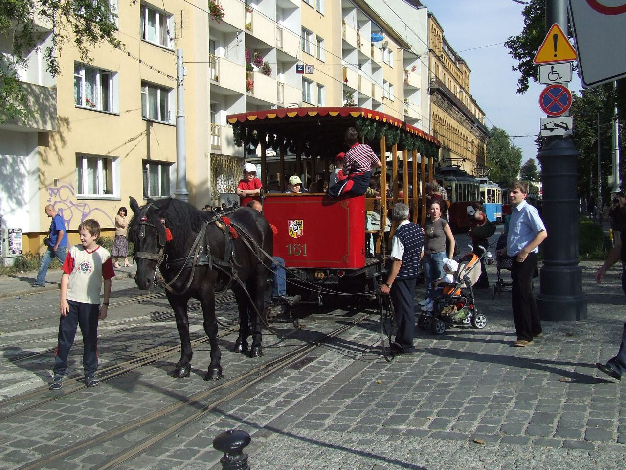 130 years of trams in Wrocław Więcej zdjęć / More photos